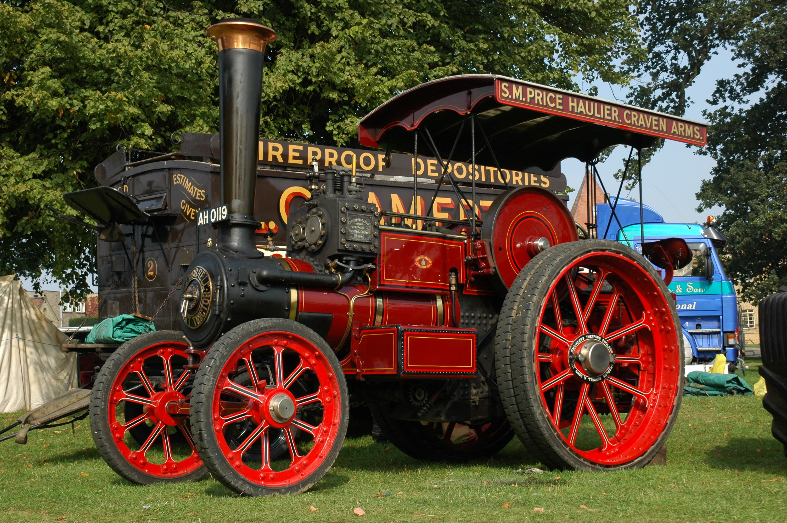 Picture of Charles Burrell & Sons 'Gold Medal' steam tractor. Works number 3442 built in 1913. Pictured at the Bedfordshire Steam & Country Fayre on the 17 September 2006.